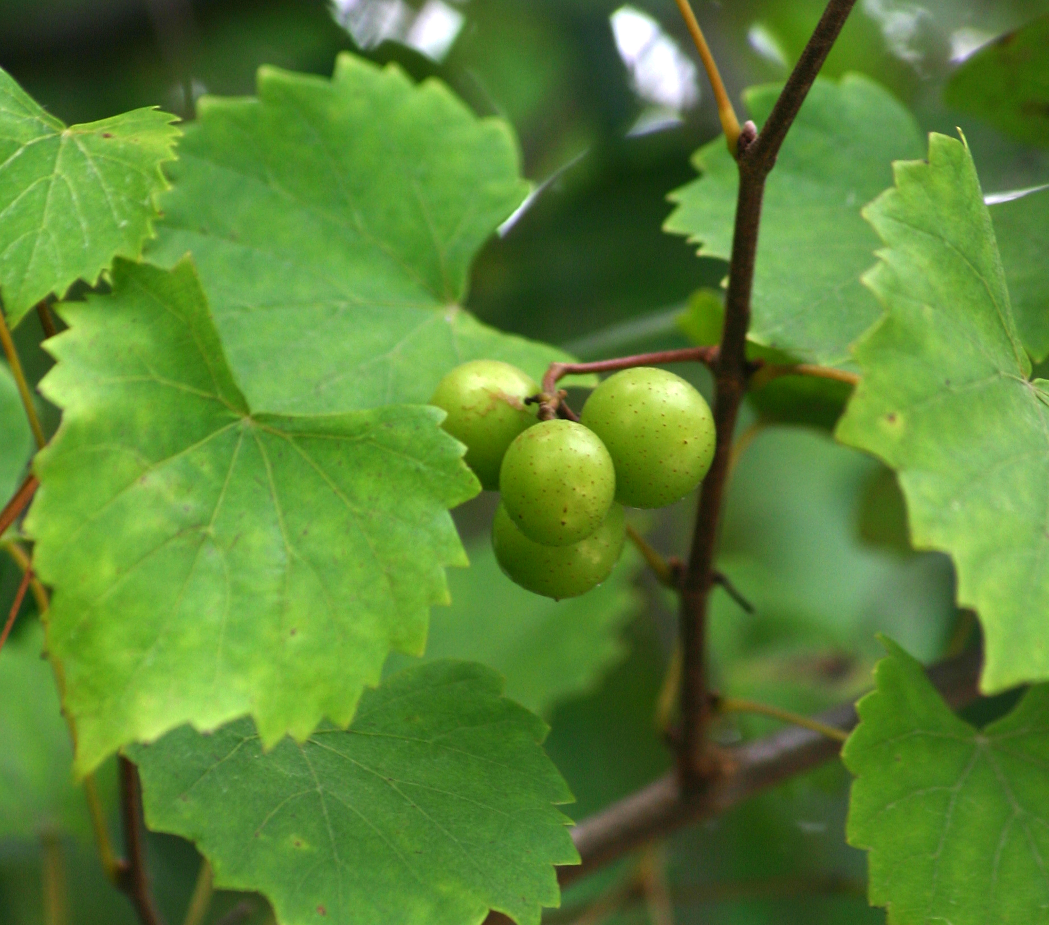 The wild progenitor of the muscadine grape still grows freely in southeastern USA. This one from Indiantown, South Carolina.